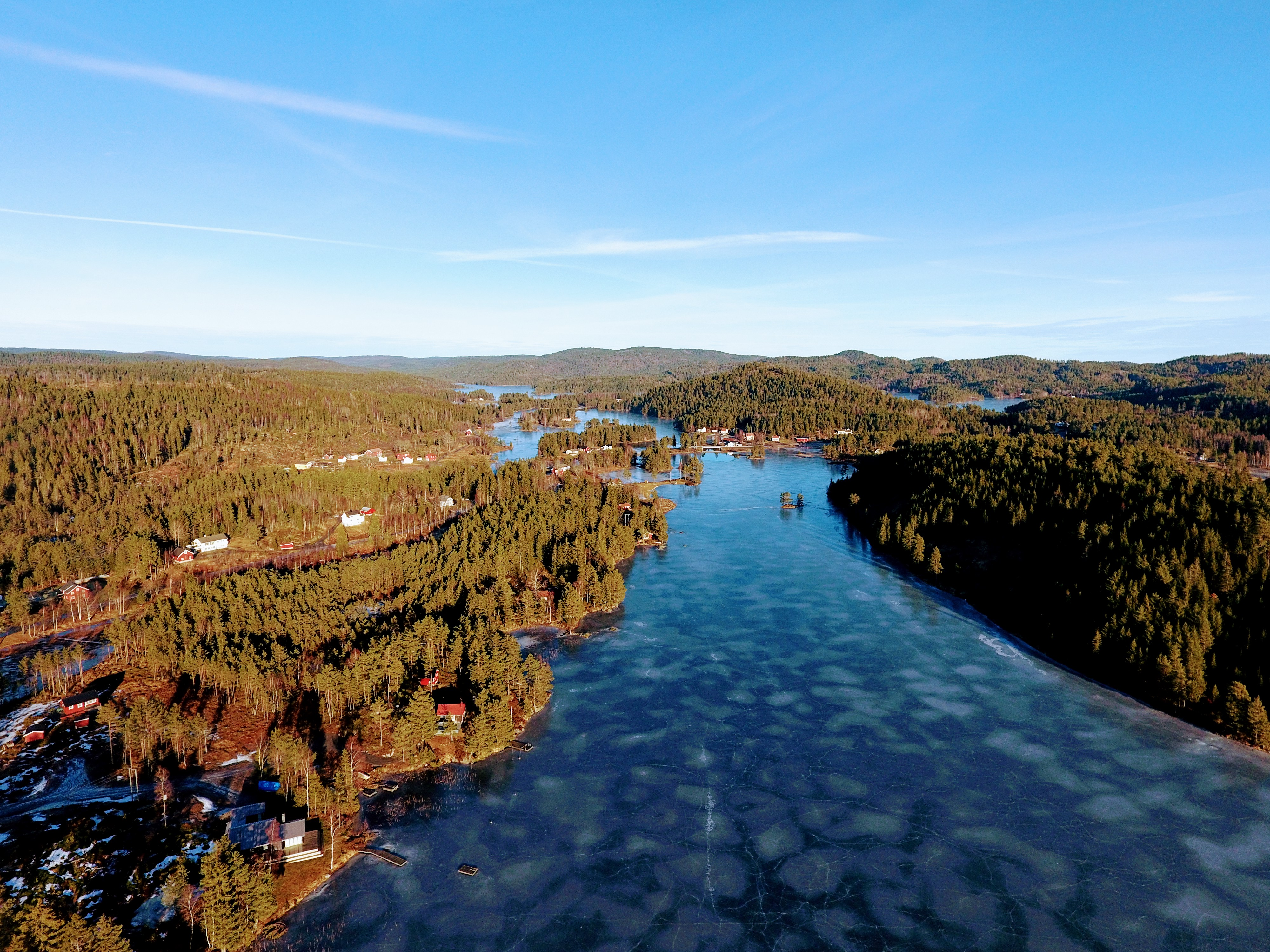 Vegår Lake in Vegårshei, Aust-Agder